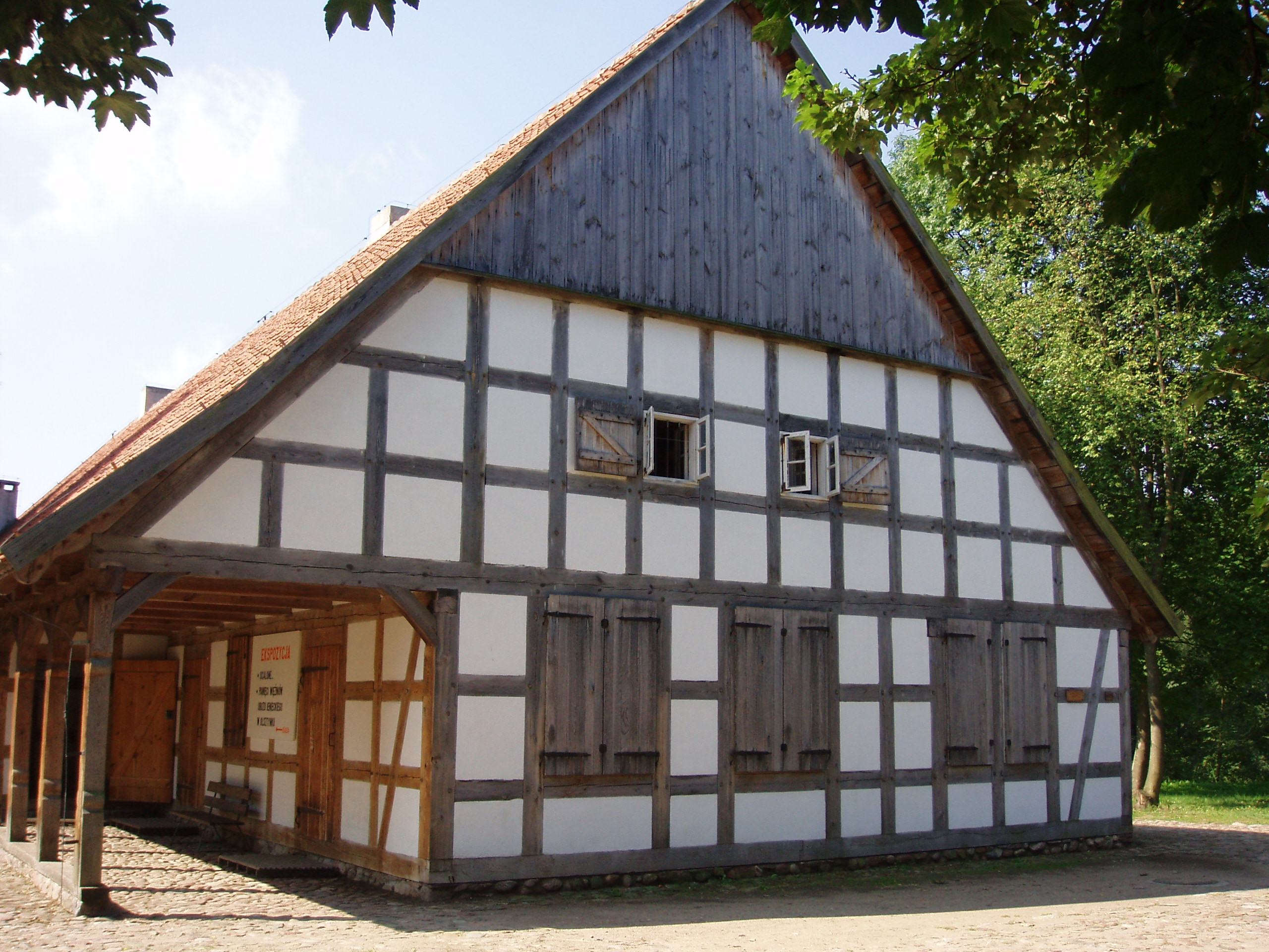 Ethnographic Park in Olsztynek - 2. A 1790 inn from Skandawa near Barciany, Kętrzyn district, replica